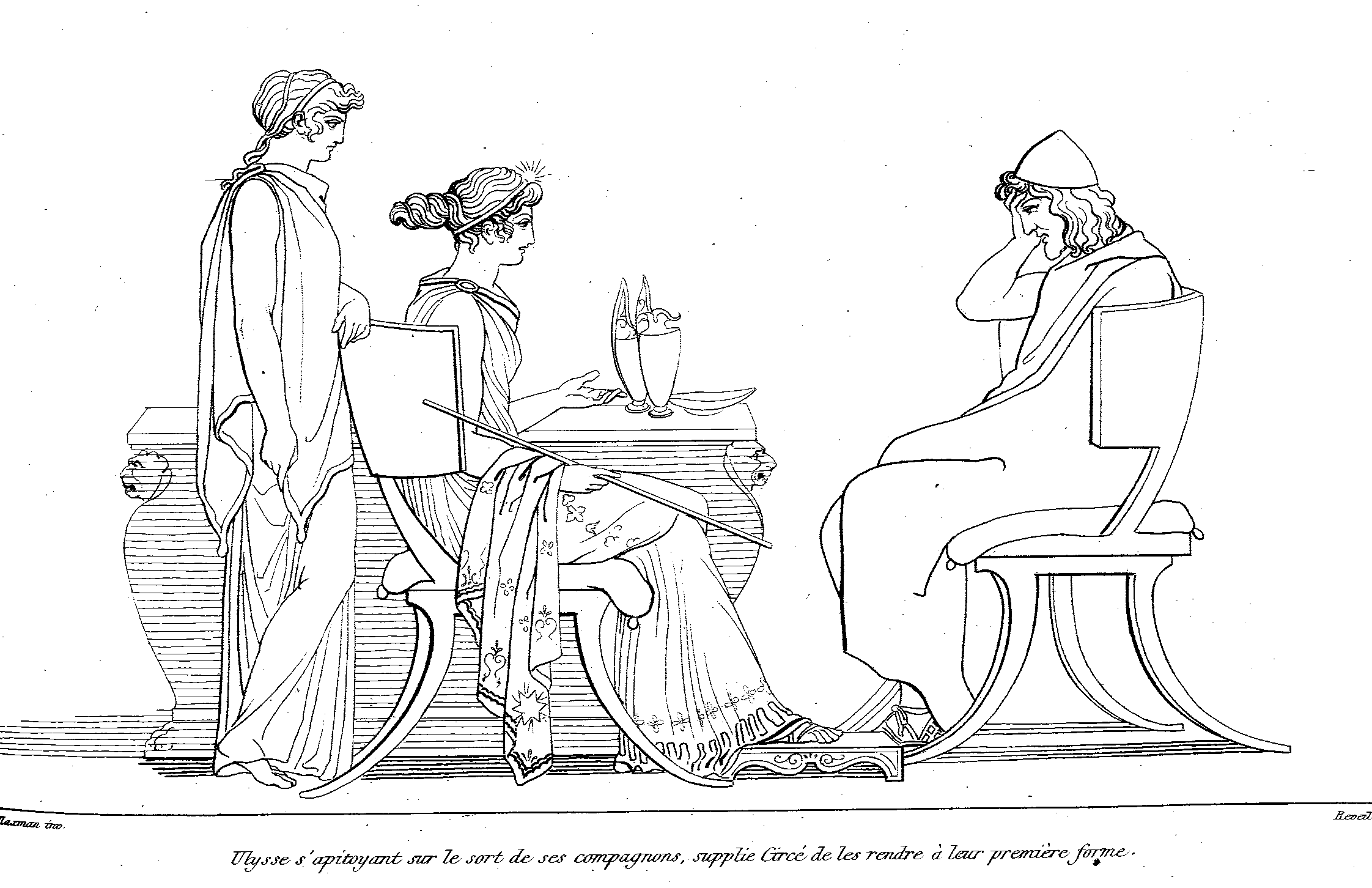 Odysseus, bewailing the fate of his companions, begs Circe to restore them to their original shape.